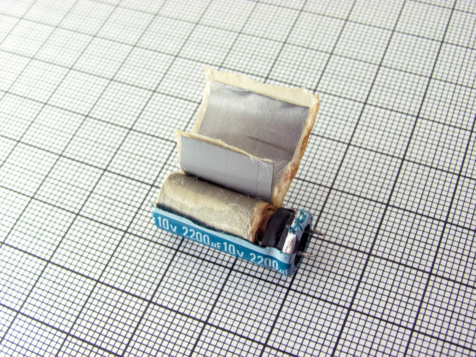 Internals of an electrolytic capacitor.